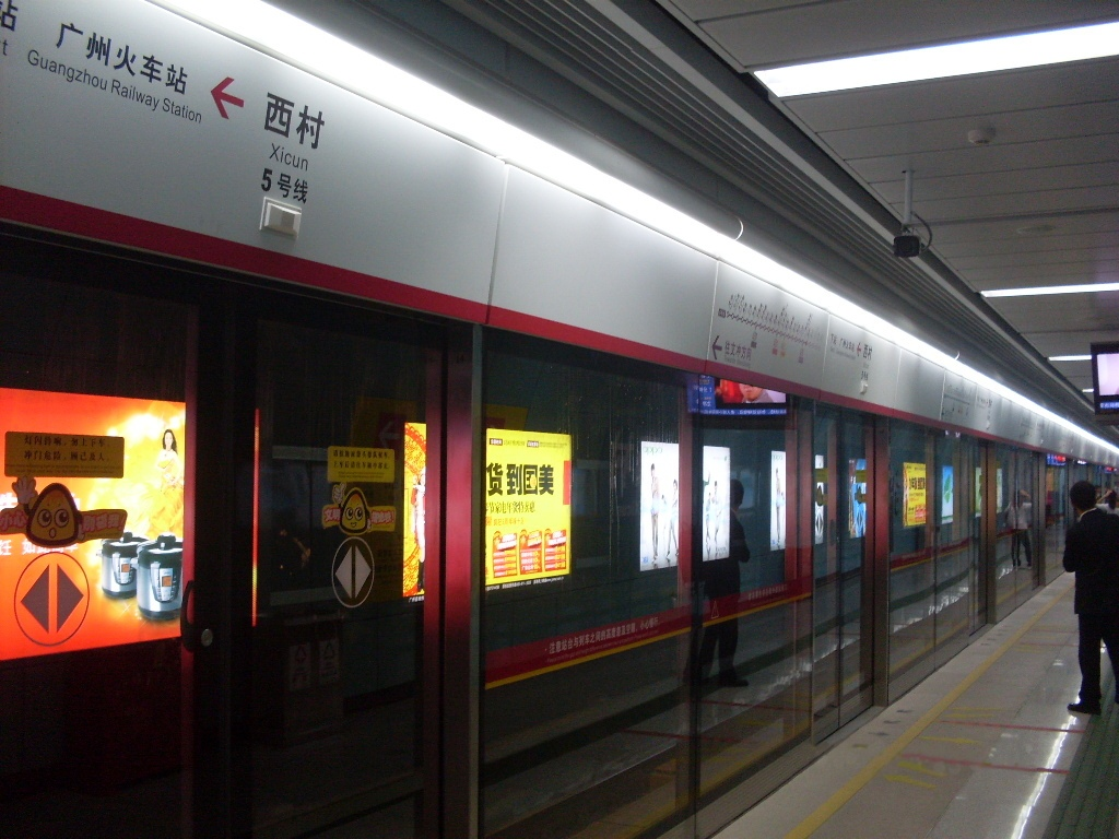 Xicun Station, Line 5 Guangzhou Metro 粵語: 广州地铁5号线西村站